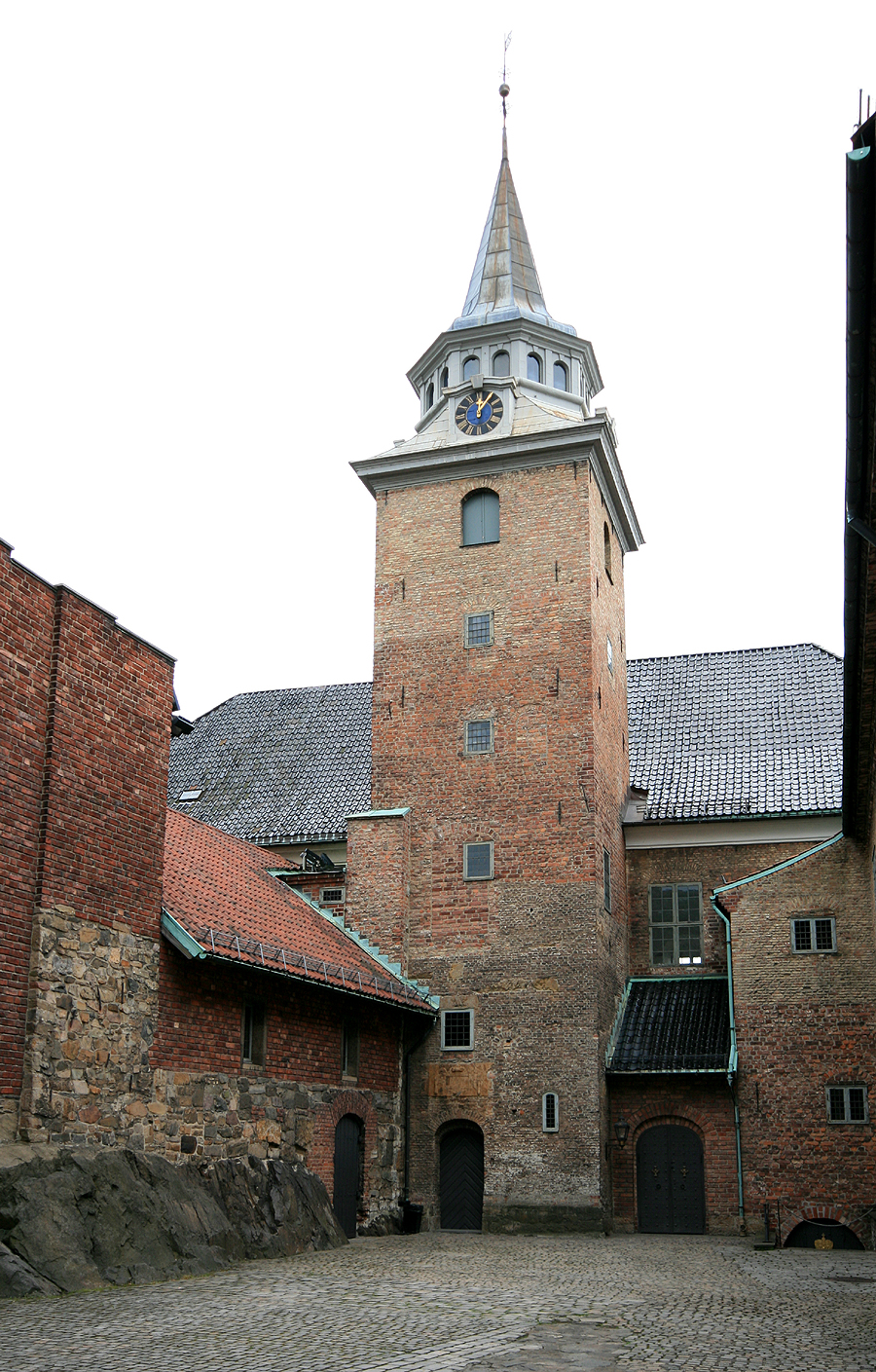 The blue tower, Akershus castle, Oslo. Built 1623.